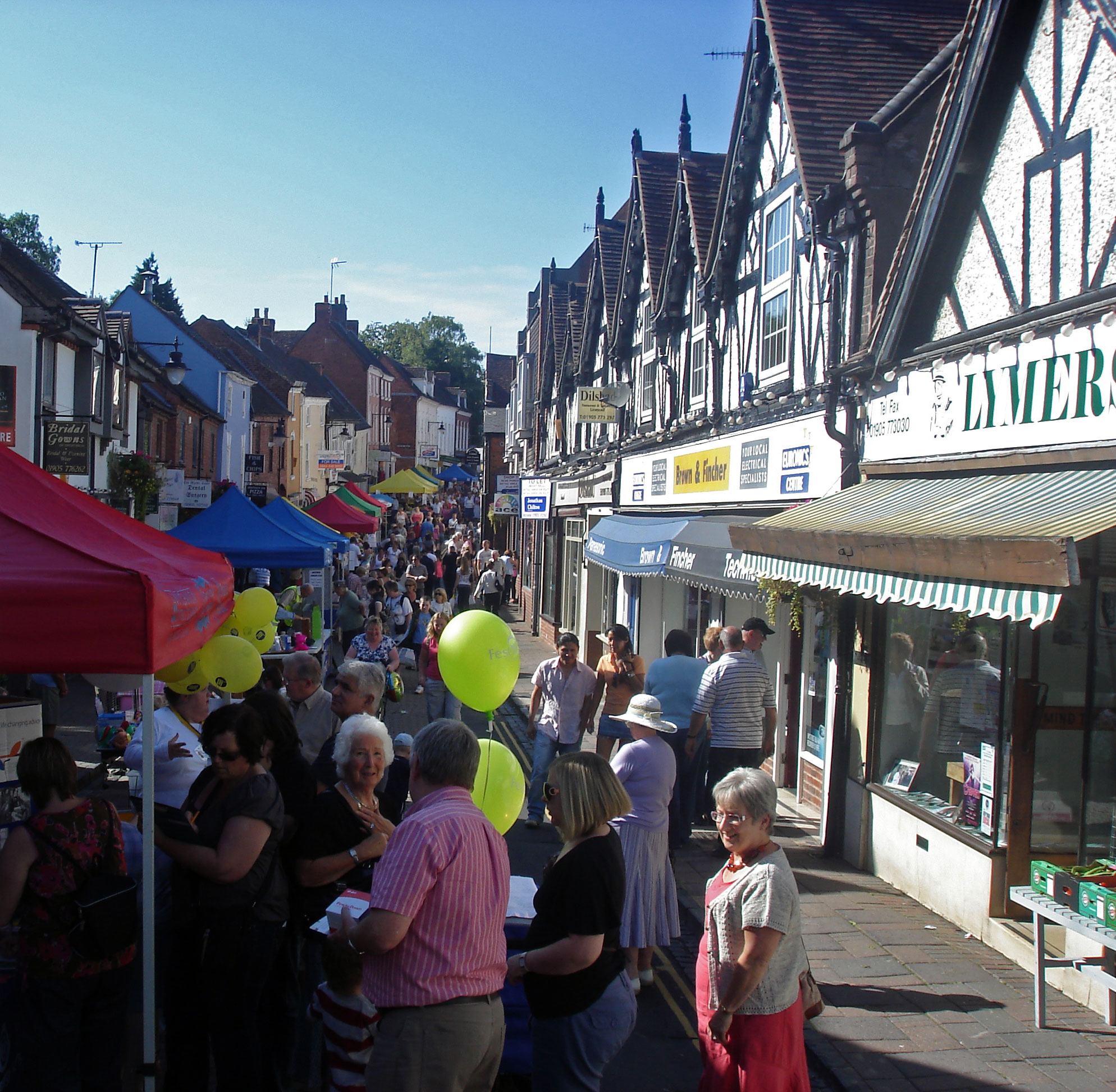 Image of the High Street in Droitwich Spa